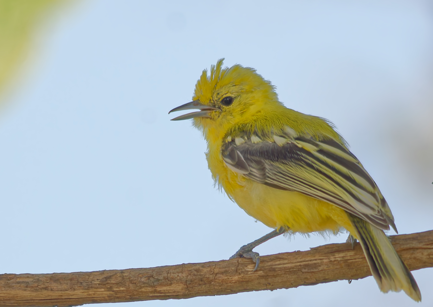 Marshall's Iora (Aegithina nigrolutea) from Great Rann of Kutch